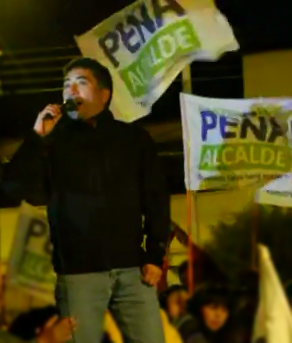 I take this picture in the election day of Cristián Peña, in Lebu Chile.